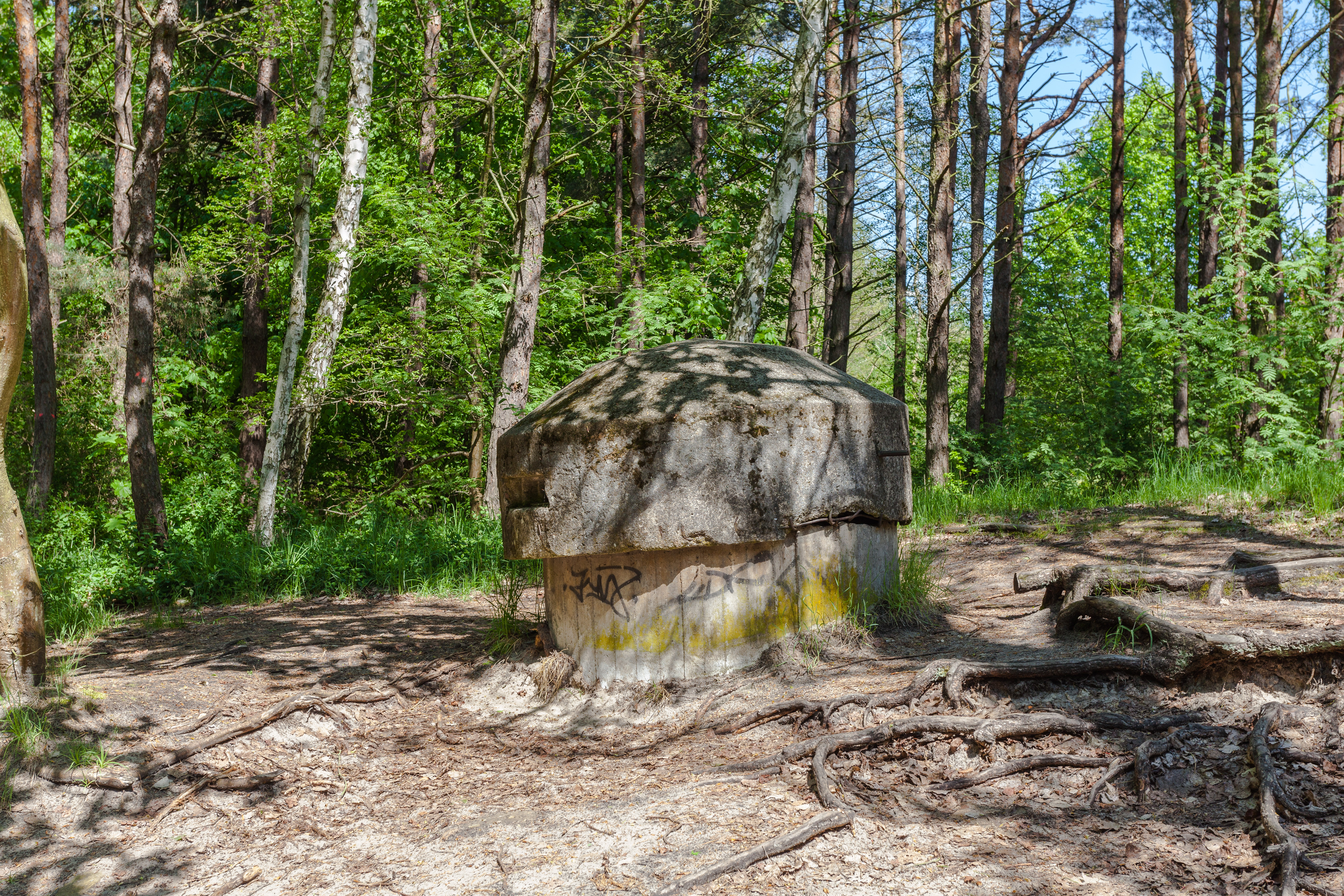 Military defense point, Hel, Poland